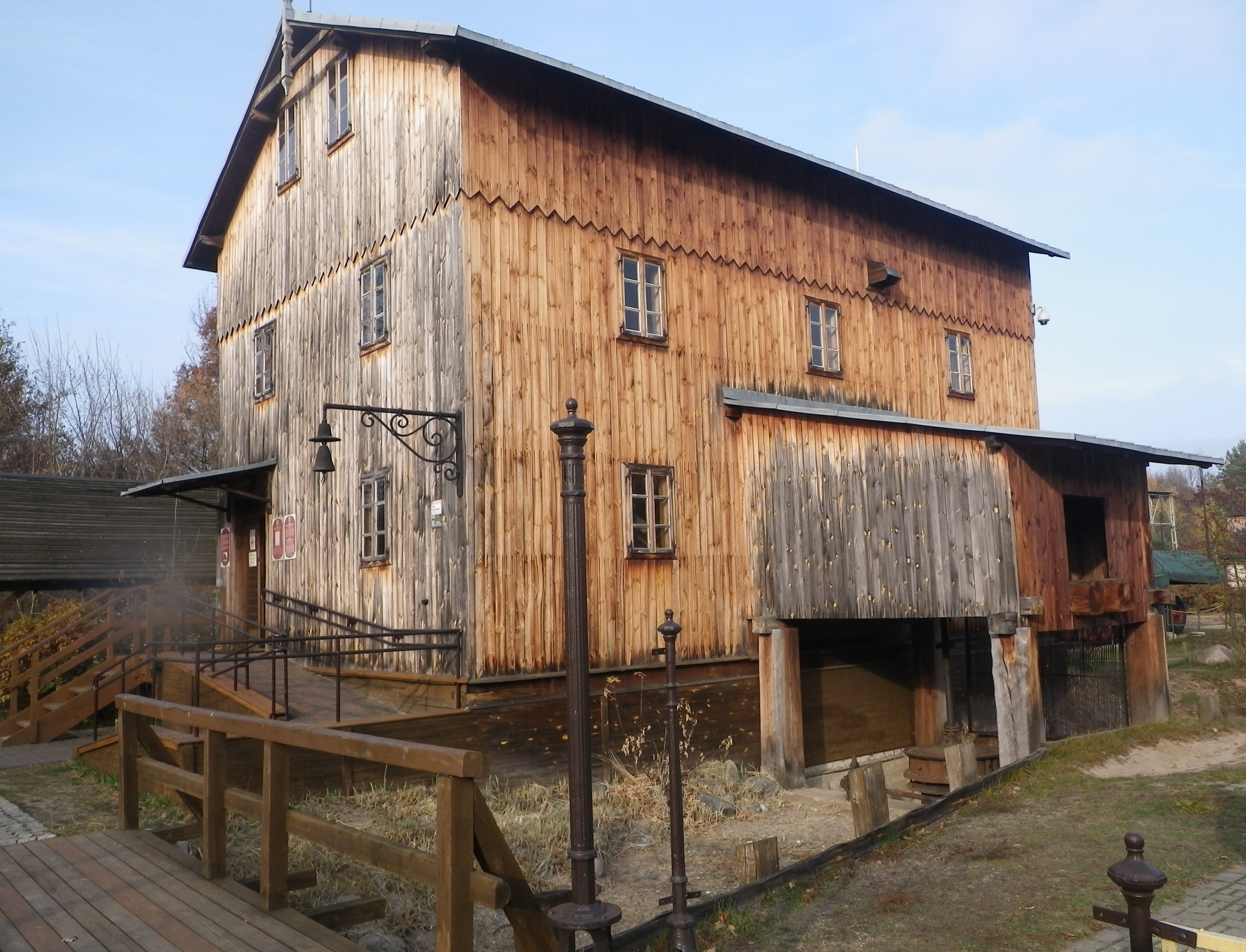 A mill in Pilica River Open-Air Museum (Skansen Rzeki Pilicy) in Tomaszów Mazowiecki